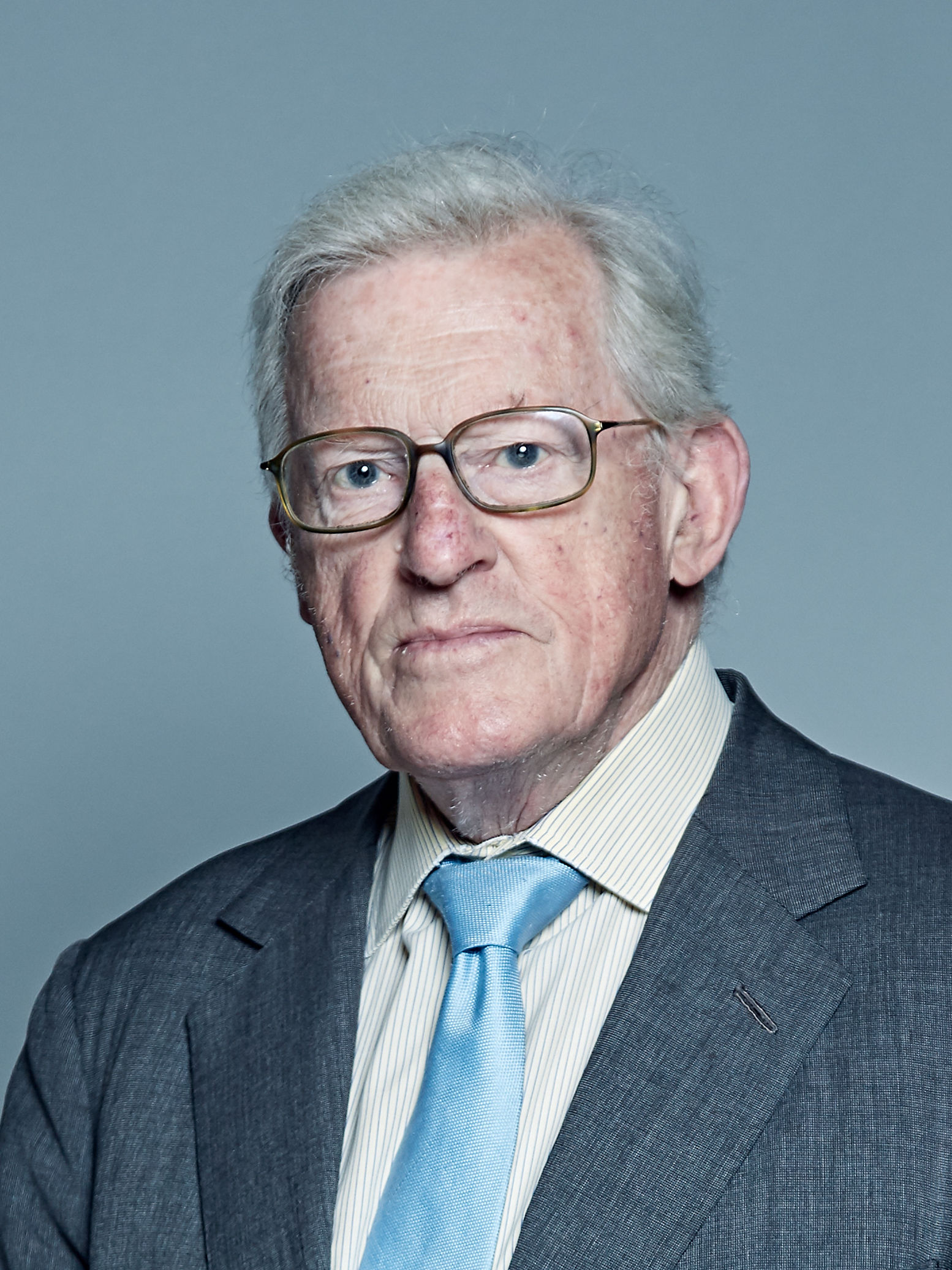 Official portrait of Lord King of Bridgwater